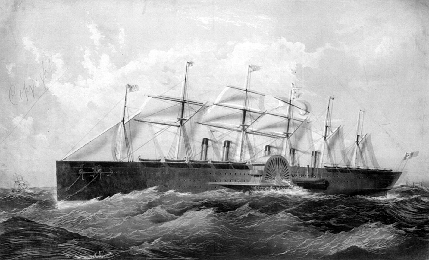 SS Great Eastern